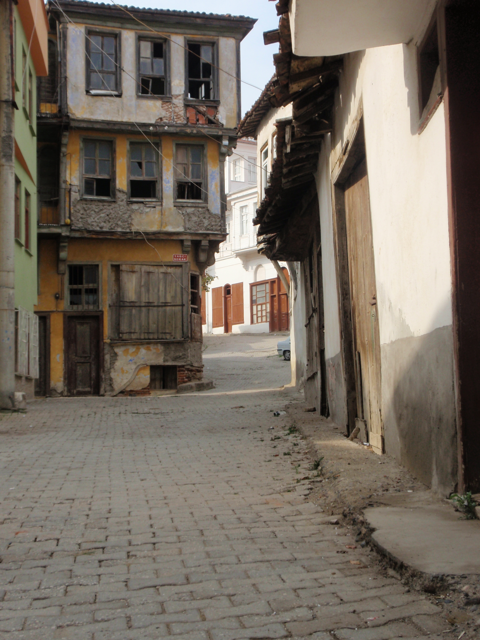 a street from Zeytinbağı